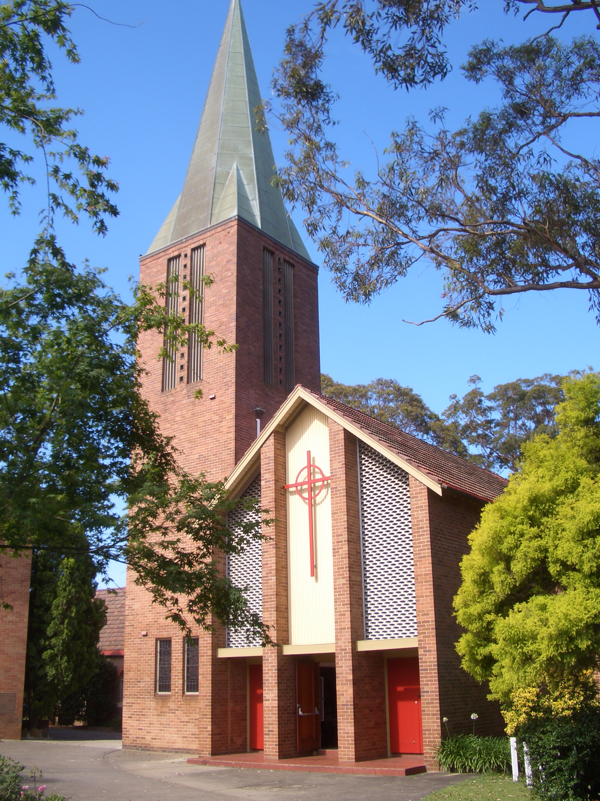 St Albans Anglican Church, Epping, Sydney